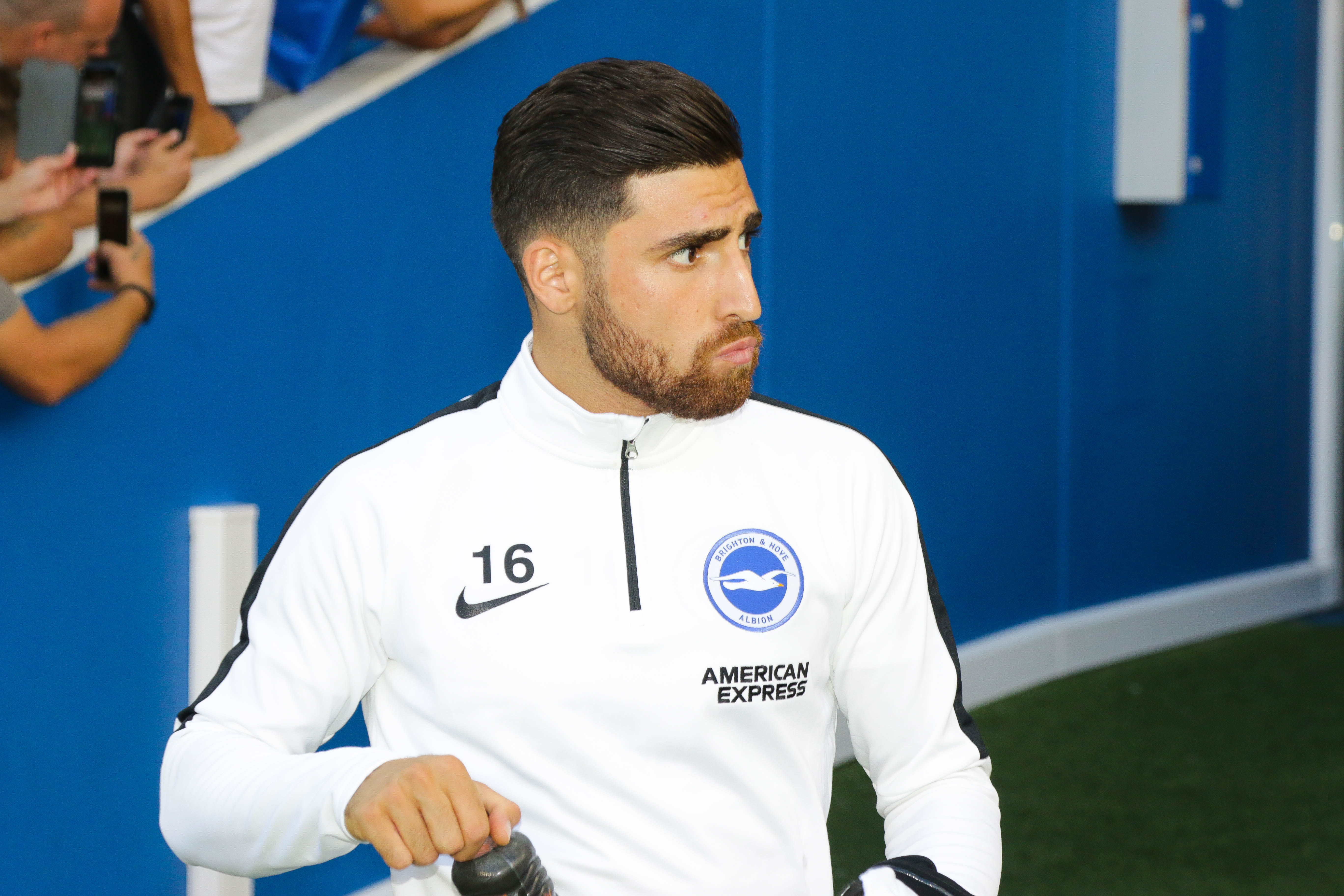 BHA v FC Nantes pre season 03 08 2018-287.jpg